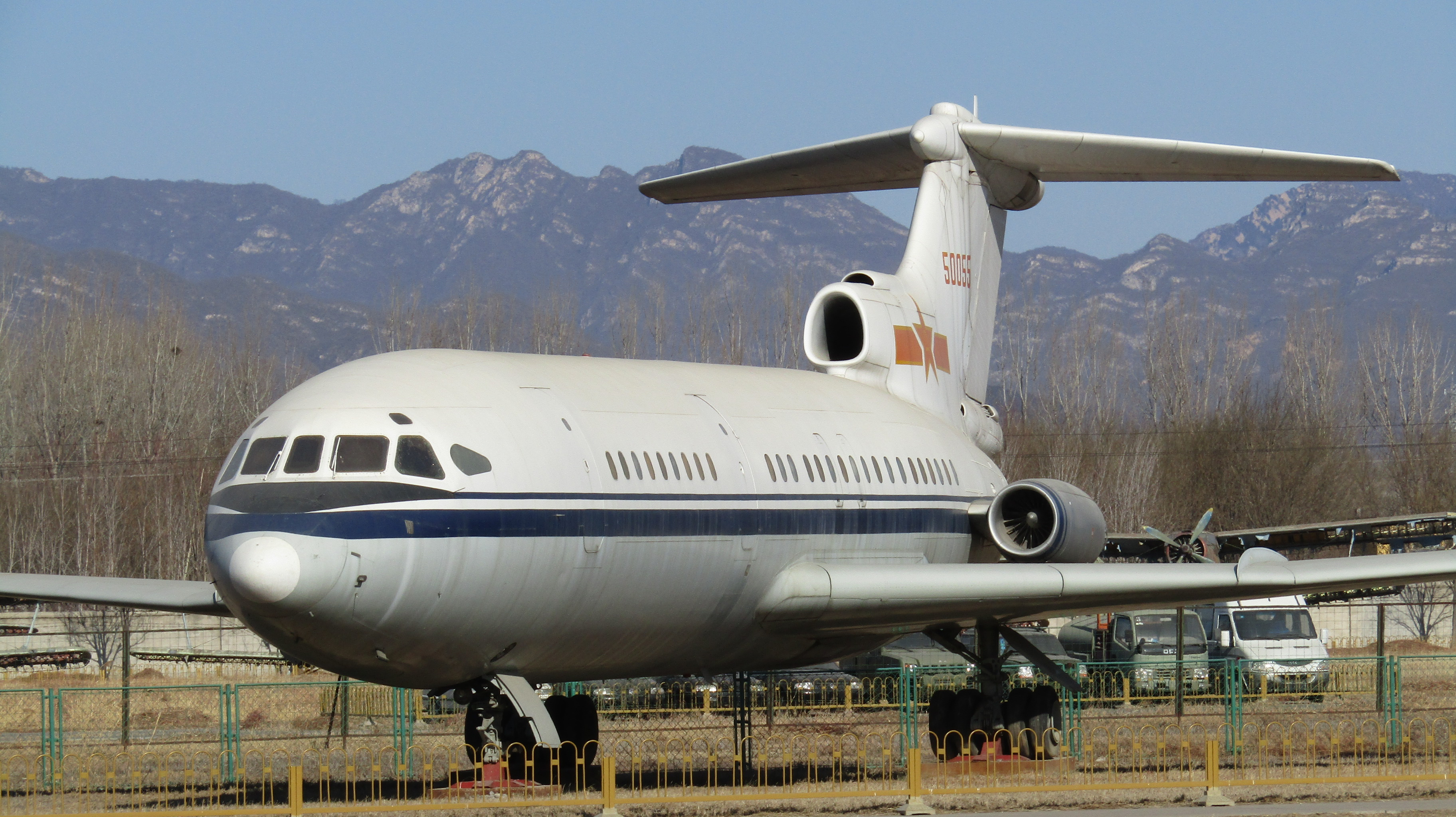 Hawker Siddeley Trident 2 at China Aviation Museum, Beijing